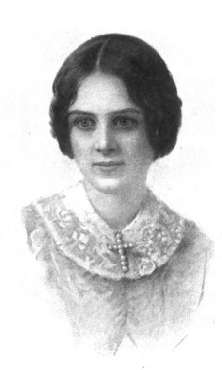 Maria White (d. 1853), abolitionist and wife of American poet/professor James Russell Lowell. Scanned from James Russell Lowell and His Friends by Edward Everett Hale. Published by Houghton, Mifflin and company, 1899.